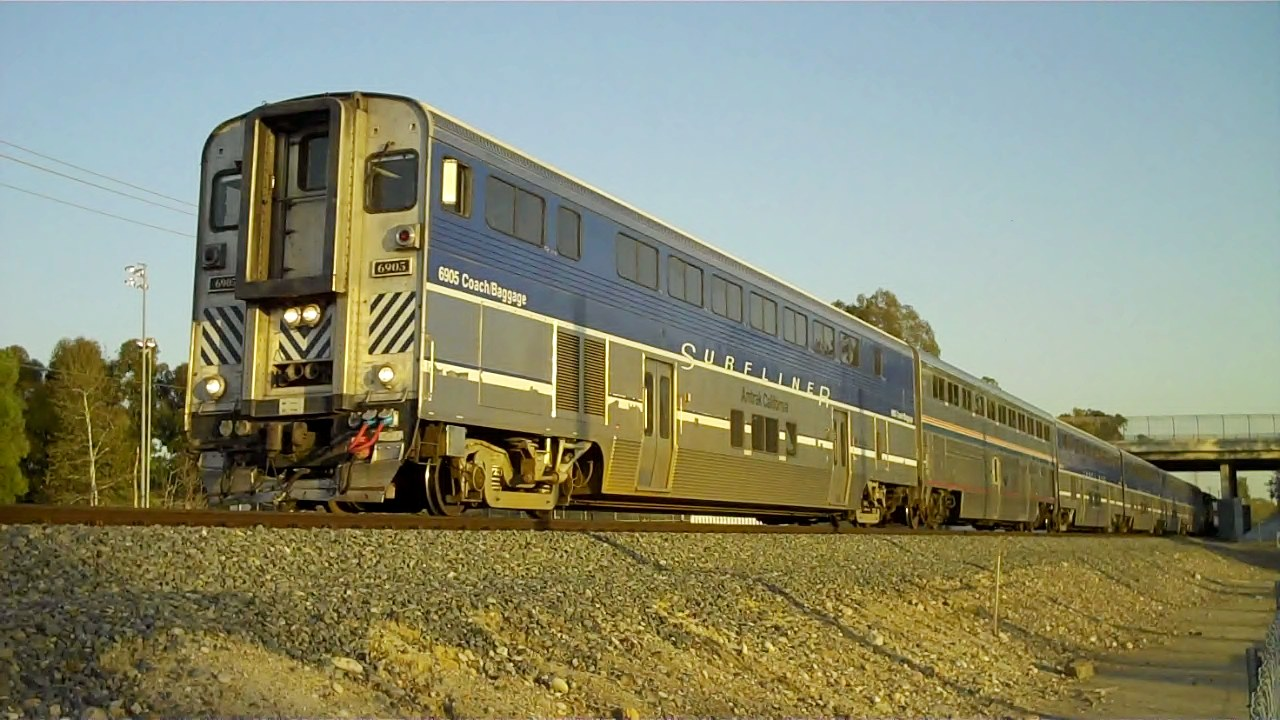 Amtrak 583 through Lake Forest.